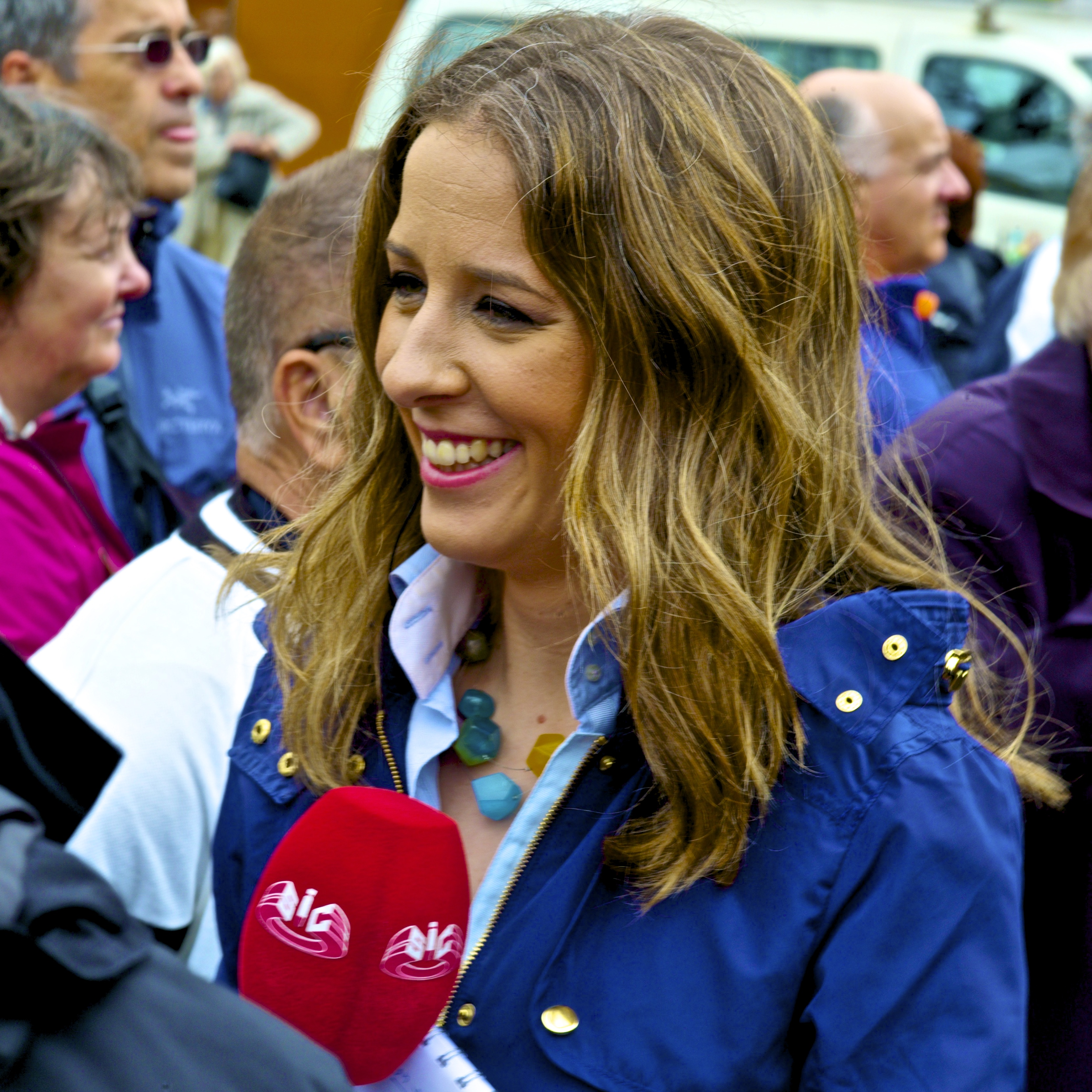 SIC TV news reporter at Rossio, Lisbon